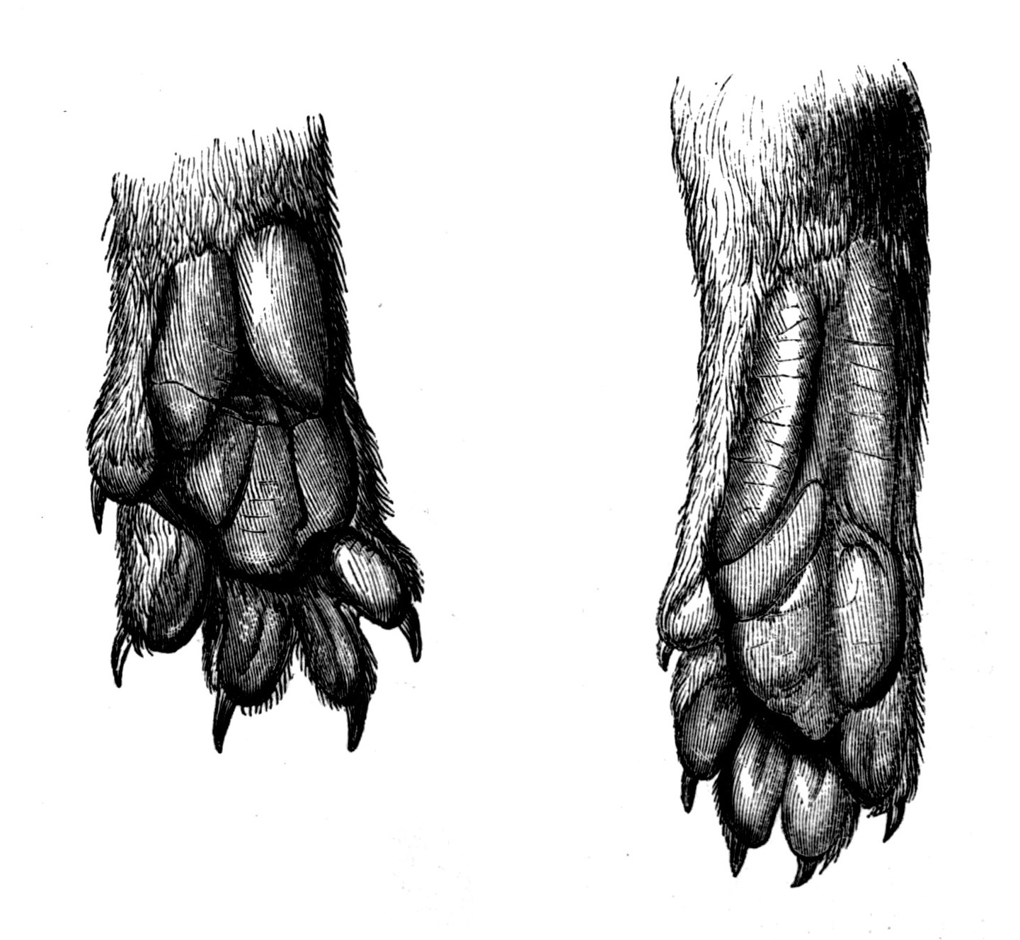 Fossa (Cryptoprocta ferox) paws - left: sole of the fore-paw; right: sole of the hind-paw